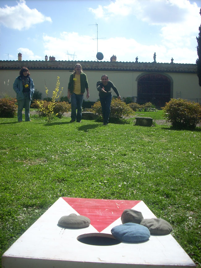 Match of Cornhole